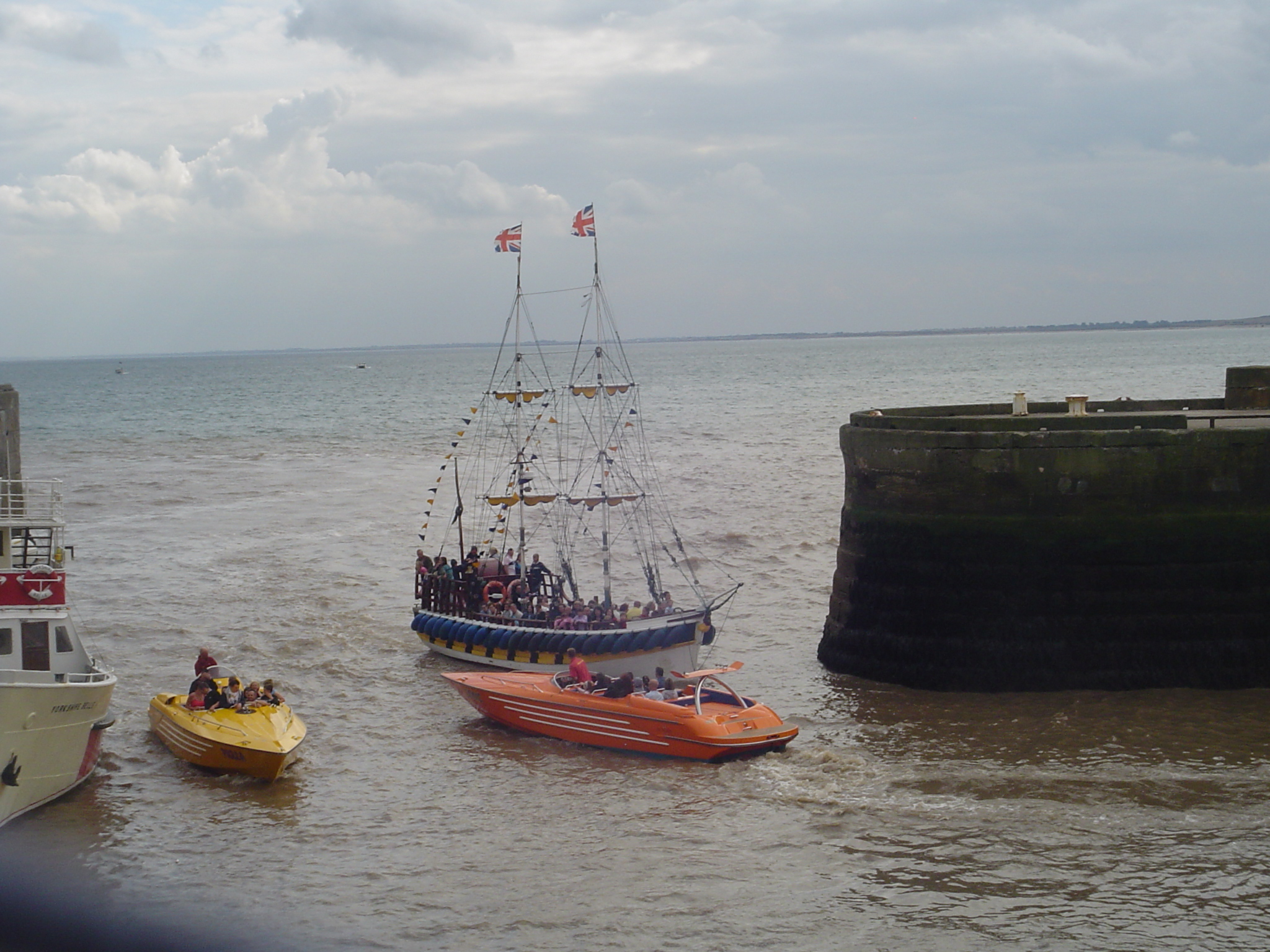 Harbour Entrance at Bridlington, East Riding of Yorkshire, England.